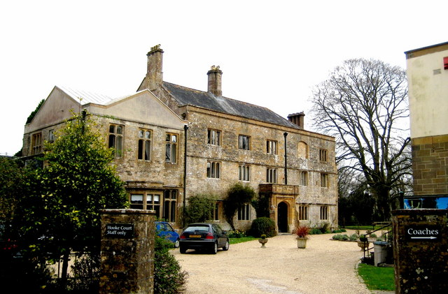 Hooke Court - Hooke Originally a moated manor house many centuries ago, a substantial part of Hooke Court has been demolished - the east wing in the 1960's. Once the home of Sir Thomas Salt in about the 1920's, the building is now a preparatory school.